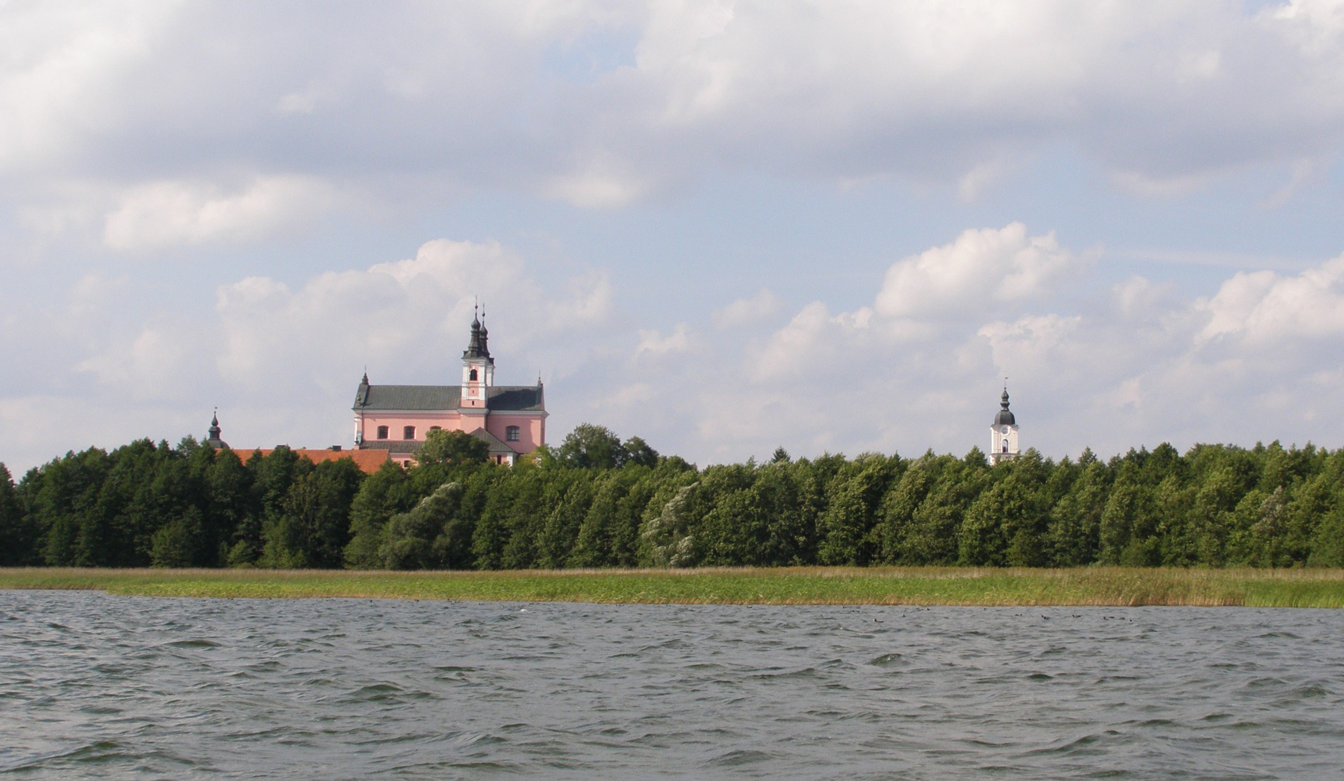 Monastery in Wigry